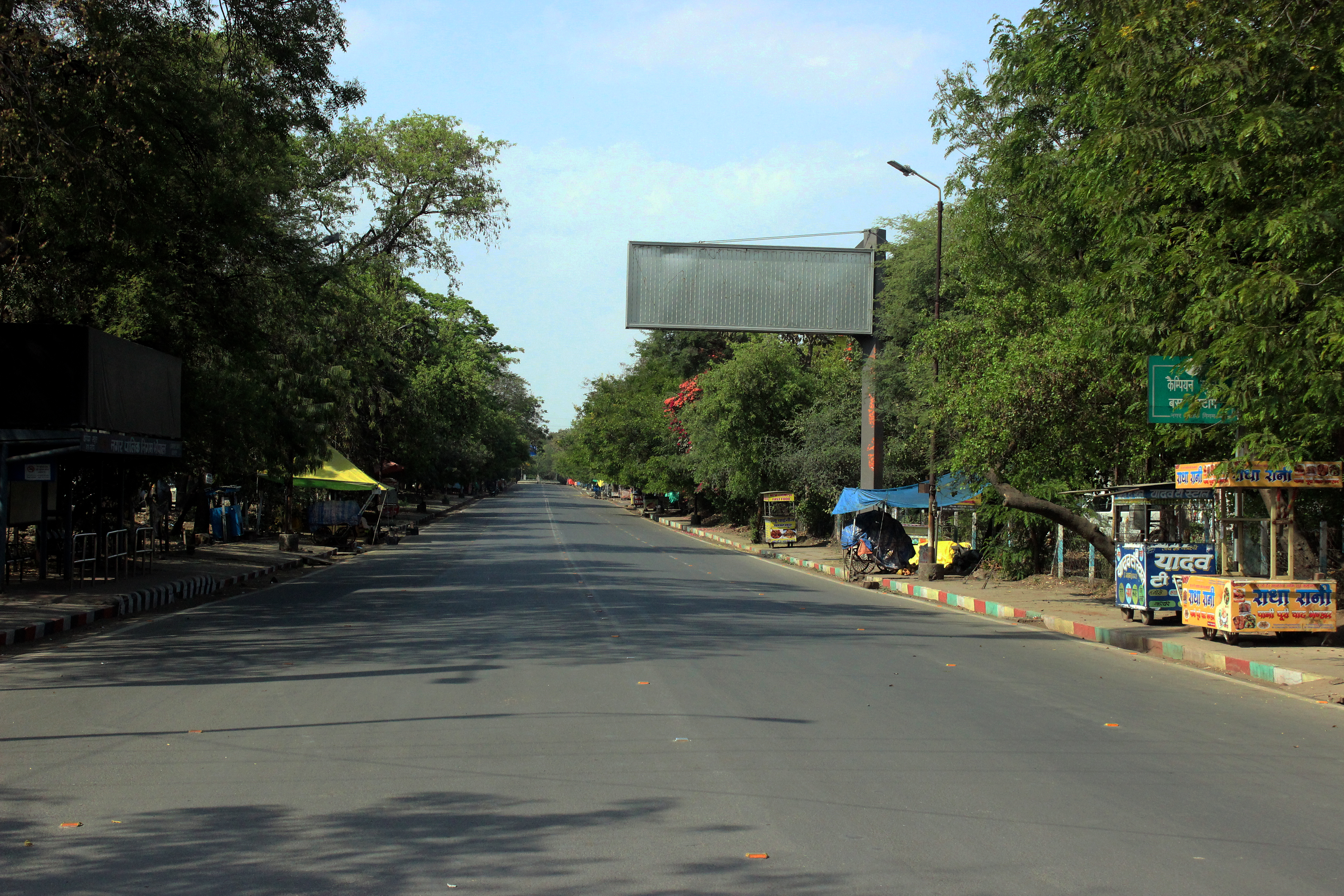 Deserted street during Janata curfew in Bhopal